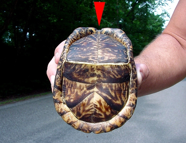 Terrapene carolina, Eastern Box Turtle, Shawnee National Forest Mississippi, Illinois, United States